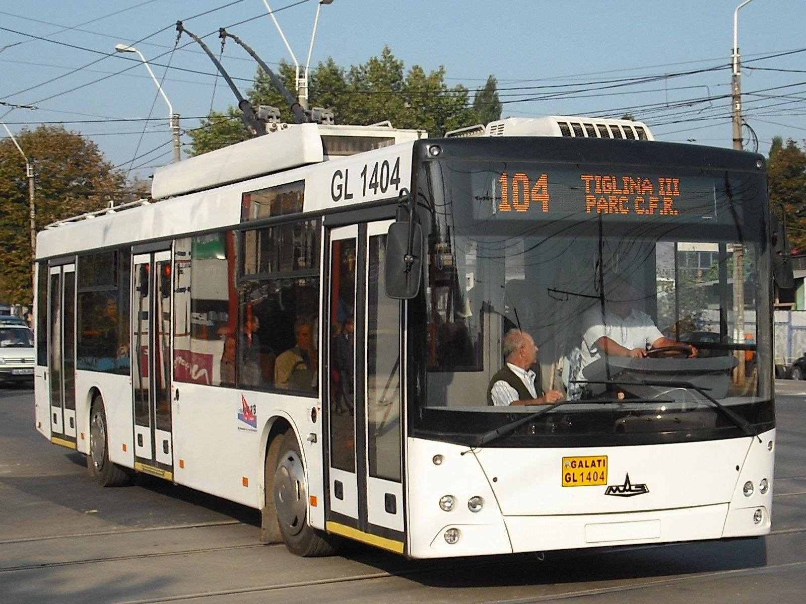 Galaţi, Romania trolleybus 1404, a 2008 MAZ 203T, entered service in early 2009. It is shown in service on route 104.